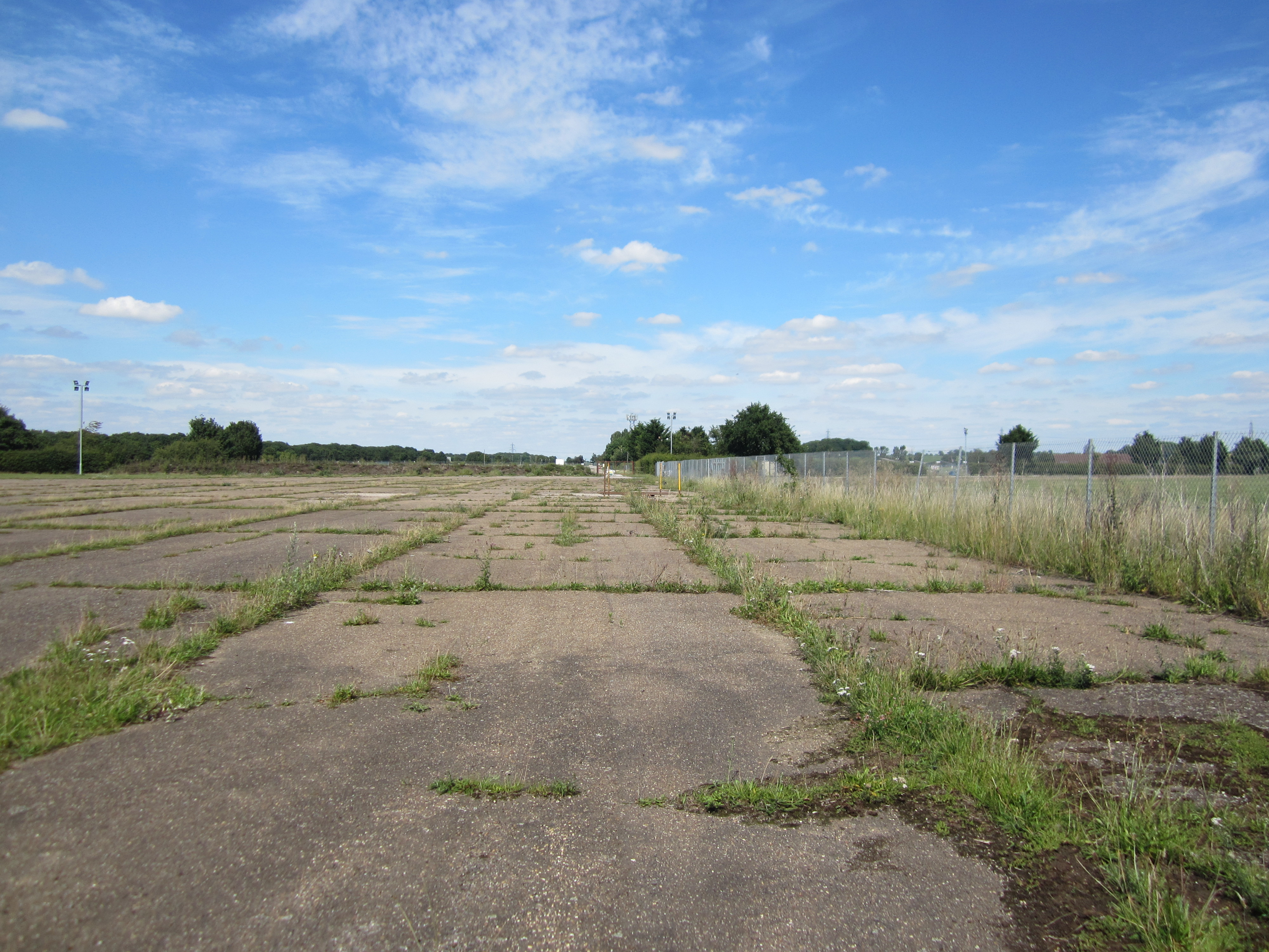 RAF Winthorpe Taxiway